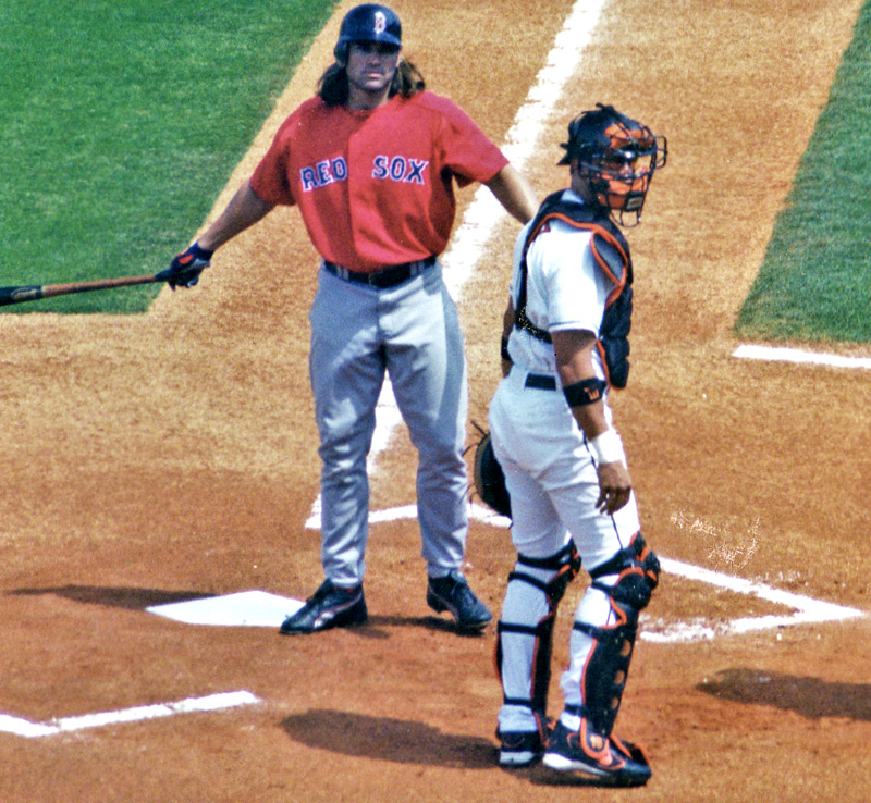 Johnny Damon is skeptical of an umpire's call, Spring Training 2005. Photo by Googie Man. 22:40, 22 June 2005 . . Googie man . . 800×738 (364 KB)